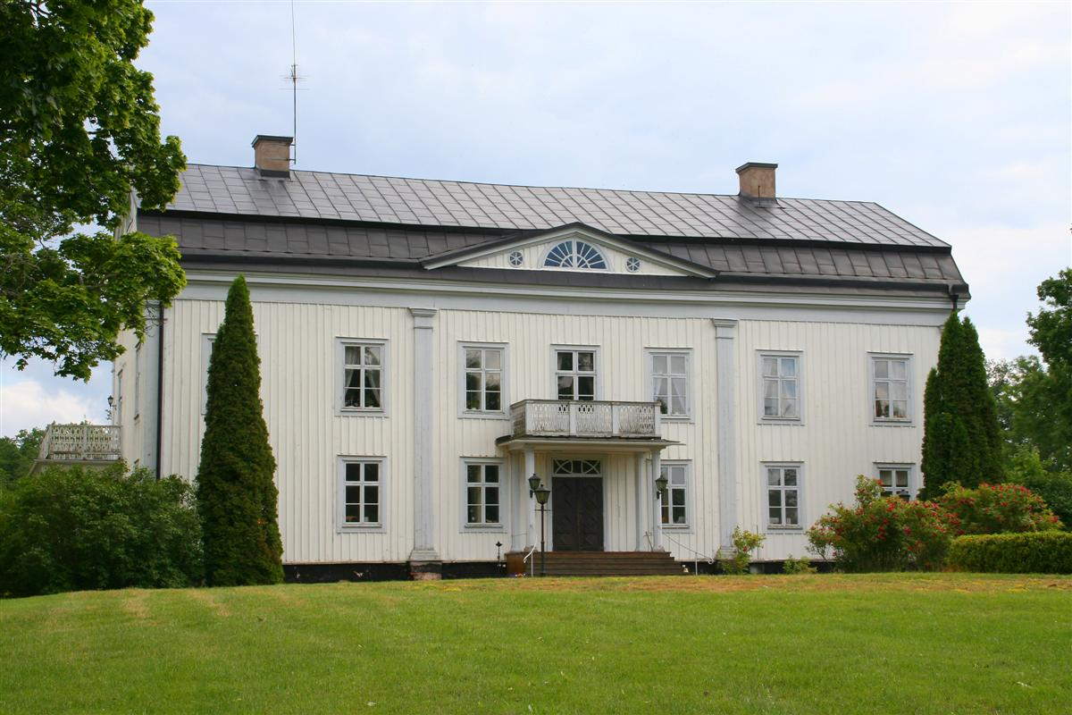 Wallby manor farm